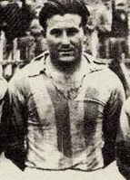 Christoforos Raggos, Olympiacos FC player